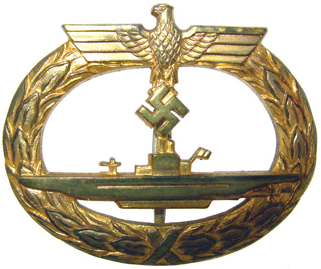 German U-boat War Badge WW2